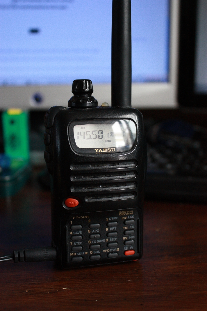 Yaesu FT-50R handheld amateur radio transceiver